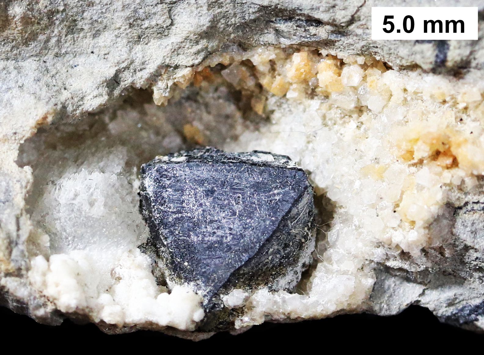 Geodized brachiopod fossil lined with calcite with a single crystal of sphalerite; Middle Devonian; Milwaukee Formation; Lindwurm Member; Milwaukee County, Wisconsin; MPM P29133; collected by K.C. Gass; photograph originally published in K.C. Gass, J. Kluessendorf, D.G. Mikulic, and C.E. Brett, 2019. Fossils of the Milwaukee Formation: A Diverse Middle Devonian Biota from Wisconsin, USA. Siri Scientific Press, Manchester, UK.